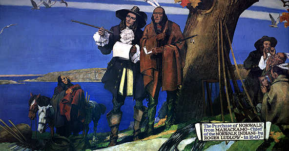 The largest canvas in Norwalk's collection of WPA murals. It measures 9 ft. high by 18 ft. long. The scene, painted by Norwalk artist Harry Townsend, depicts the purchase of Norwalk by Roger Ludlow from Chief Mahackemo. This canvas was commissioned originally for the Common Council Chamber in the former City Hall, now the Norwalk Museum. It now hangs in the Norwalk City Hall first floor atrium